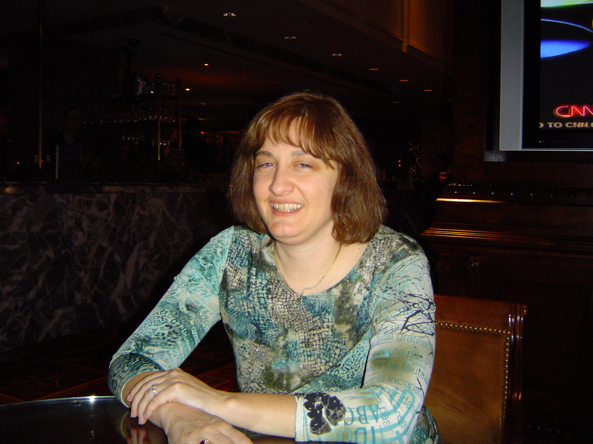 This picture of Jill Whalen was taken in the lobby of the Chicago Hilton hotel during the Search Engine Strategies conference in December 2006.